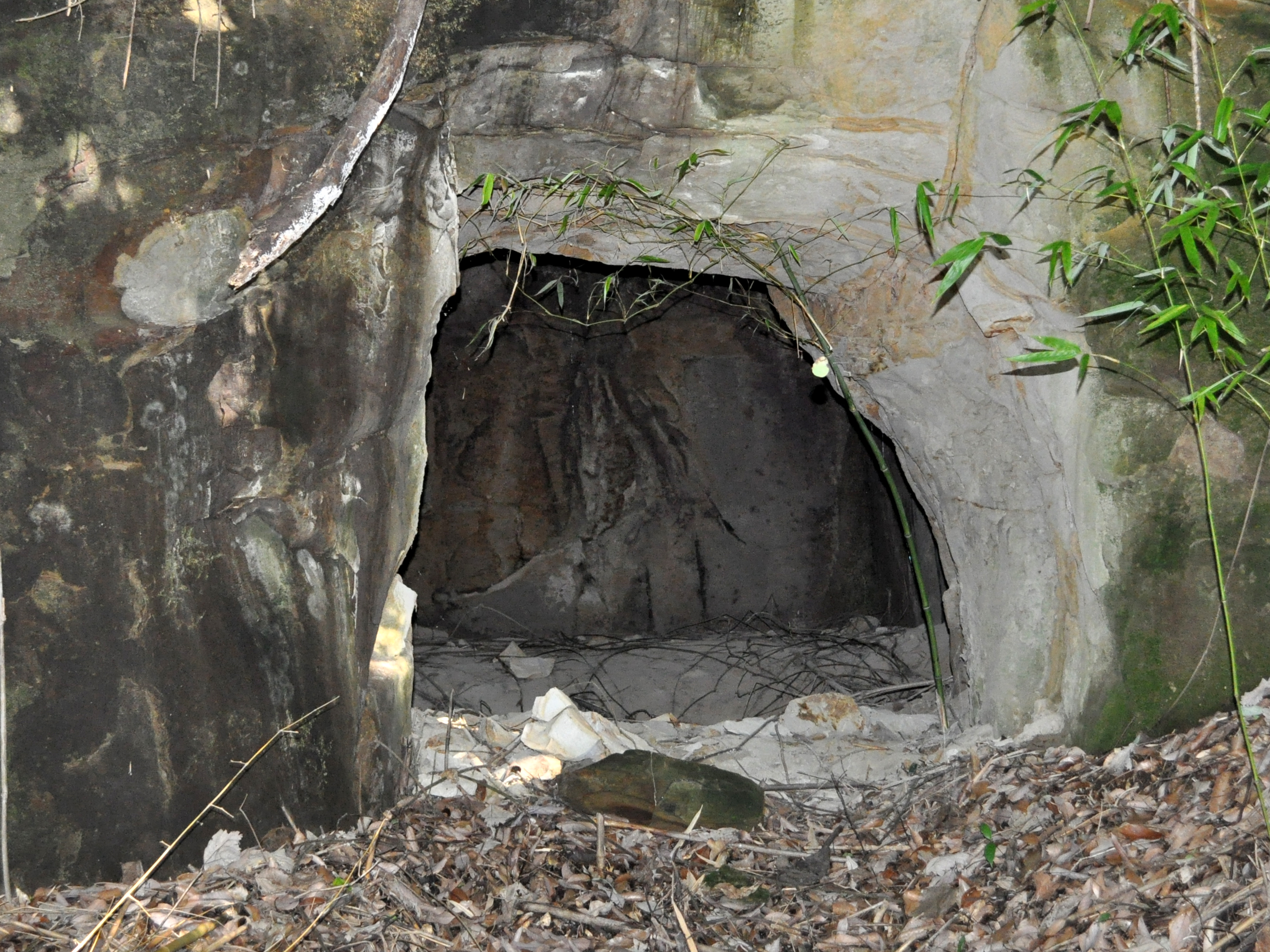 Closeup view of Ekoda Ouketsu Cave in Aoba-ku, Yokohama, Kanagawa, Japan. It is considered a tomb of local ruling families in the 7th century.